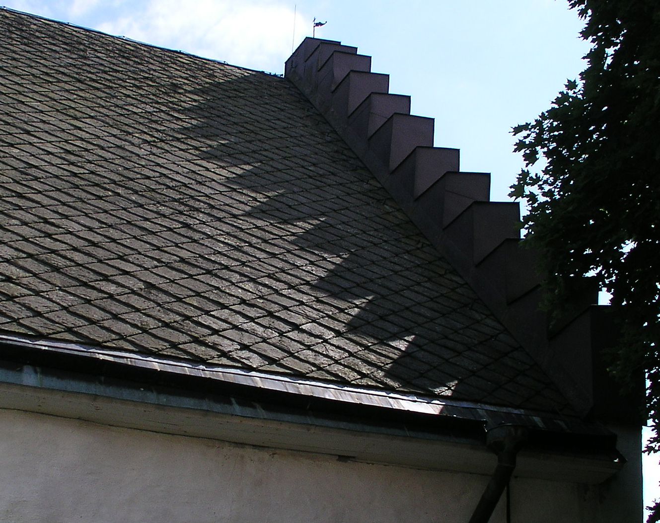 Drothems kyrka, Söderköping. Roof and gable line. The picture was taken the 30 of June 2003 by Håkan Svensson (Xauxa).